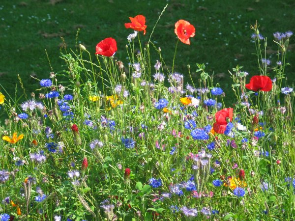 Some flowers (poppy, ... ?) in August in eastern Denmark